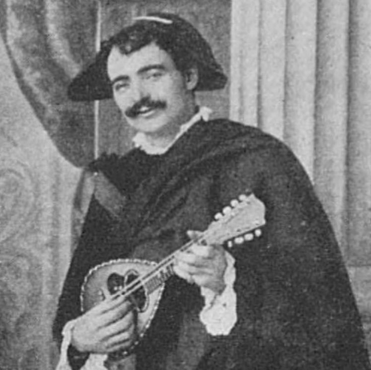 Eduardo Zerega AKA Edgar E. Hill, mandolin player with Zerega's Spanish Troubadours